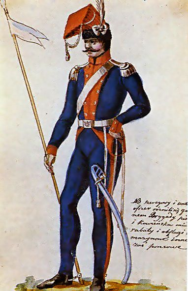 1st Brigade of Kowno of Army of Grand Duchy of Lithuania in 1792